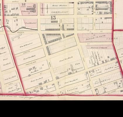 1876 map of Beaver Park, future Lincoln Park, Albany, New York